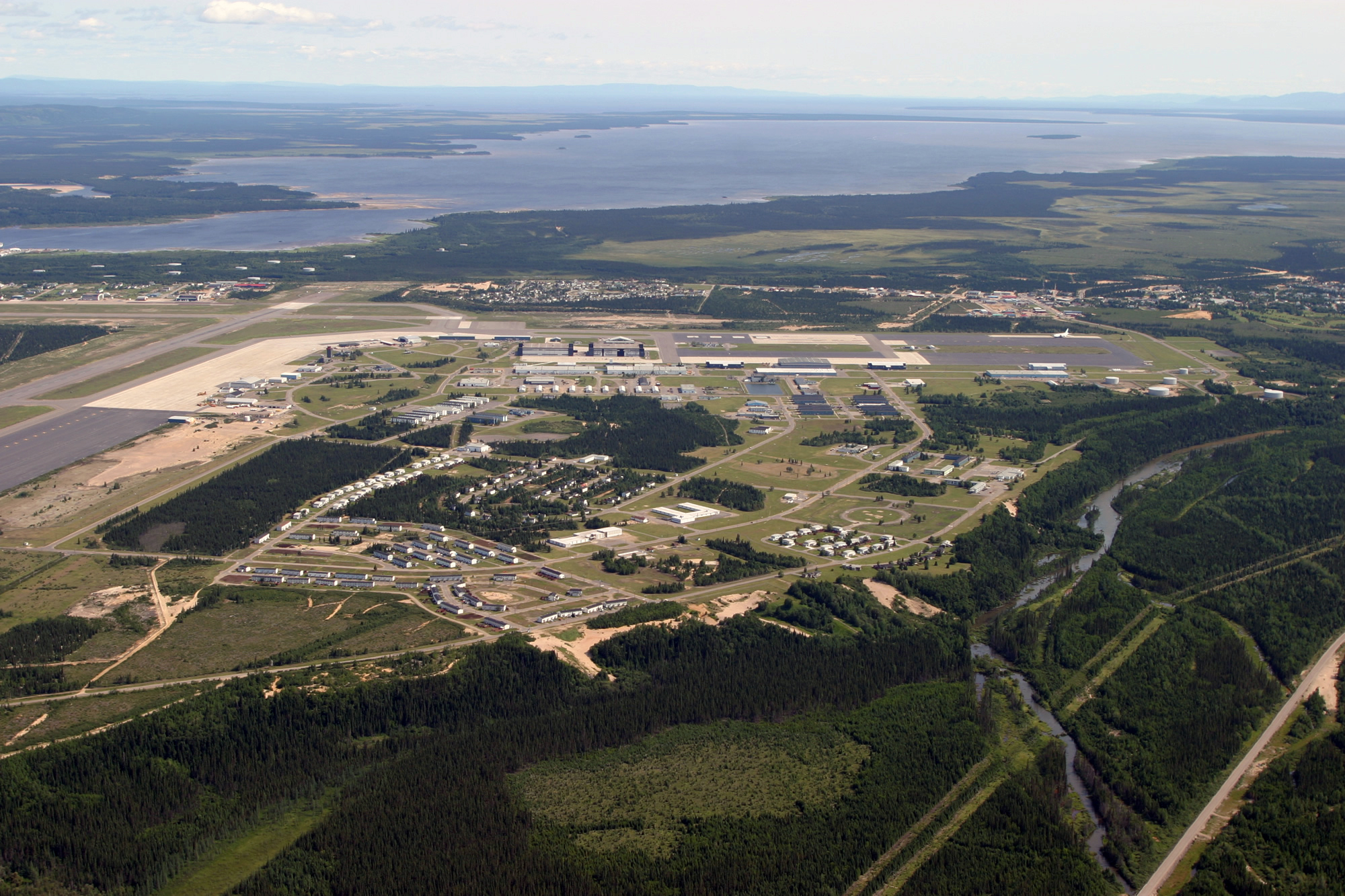 CFB 5 Wing Goose Bay, Labrador Canadian Forces Base (CFB) Goose Bay, also referred to as 5 Wing Goose Bay or Goose Bay Airport, (IATA: YYR, ICAO: CYYR) is an air force base in eastern Canada, located in the town of Happy Valley-Goose Bay, Labrador.